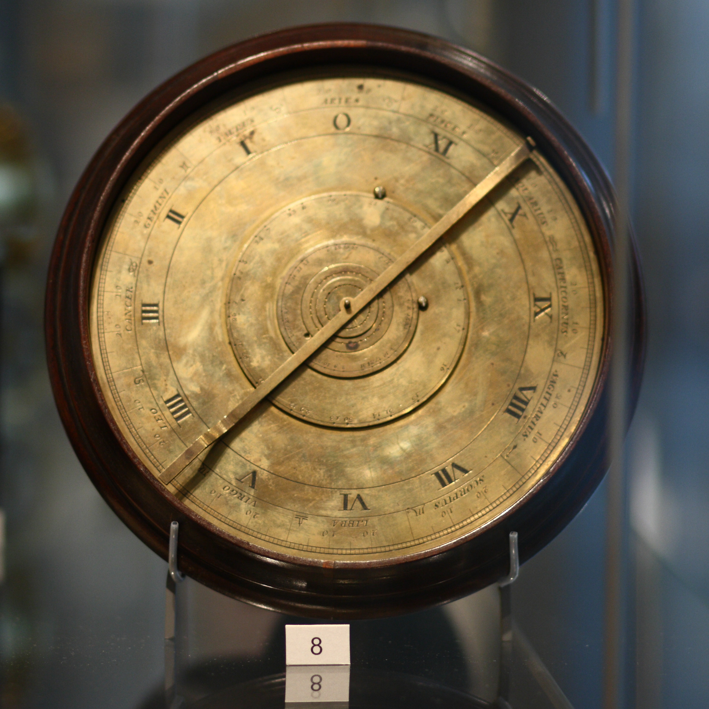 An apparatus to demonstrate the motion of Jupiter's satellites in Putnam Gallery, thought to be Dutch origin circa 1750, used by John Winthrop to teach astronomy at Harvard, on display at the Putnam Gallery in the Harvard Science Center